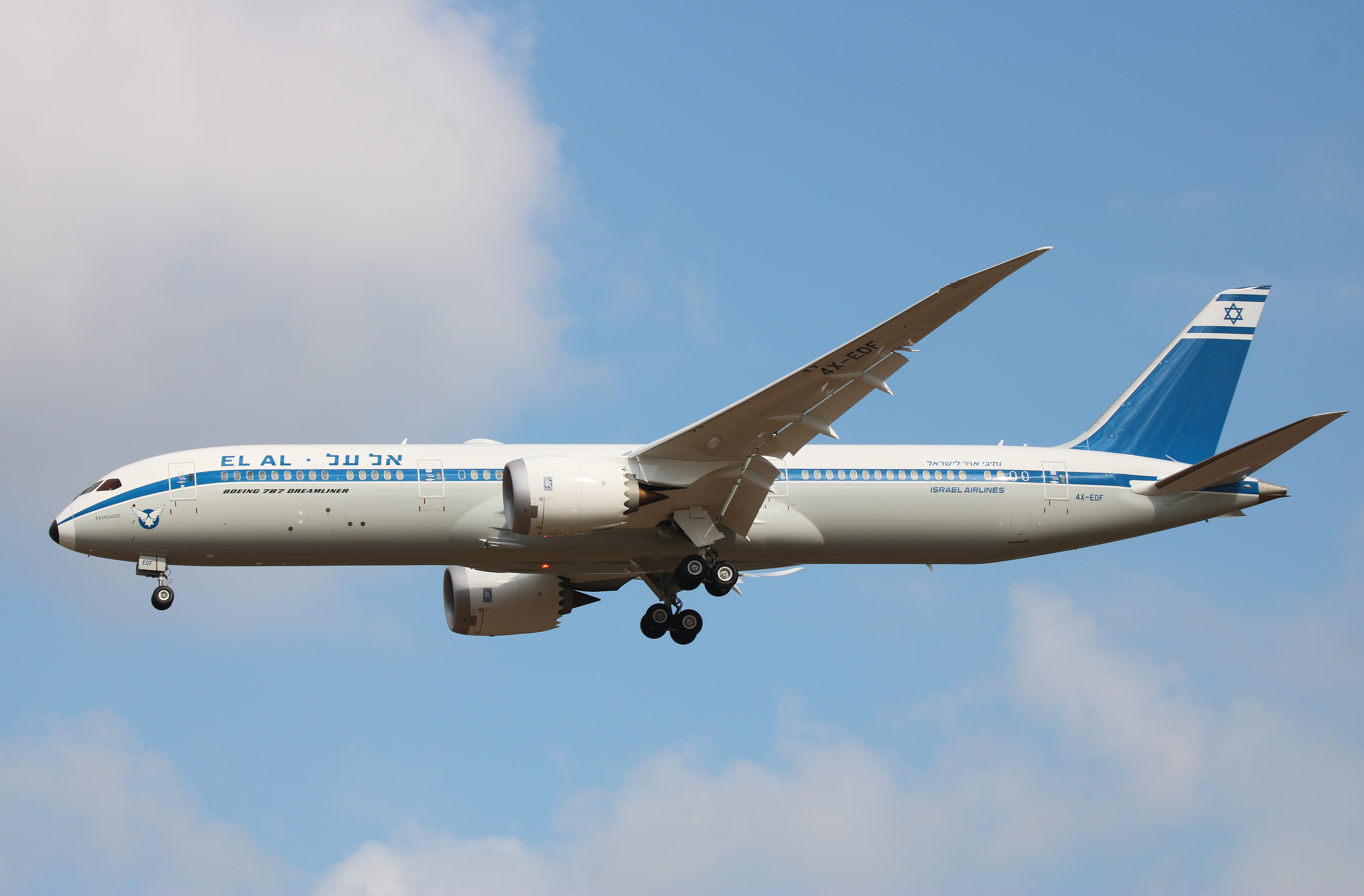 4X-EDF (EL AL Retro) on its first flight fron Seattle to Ben Gurion Airport